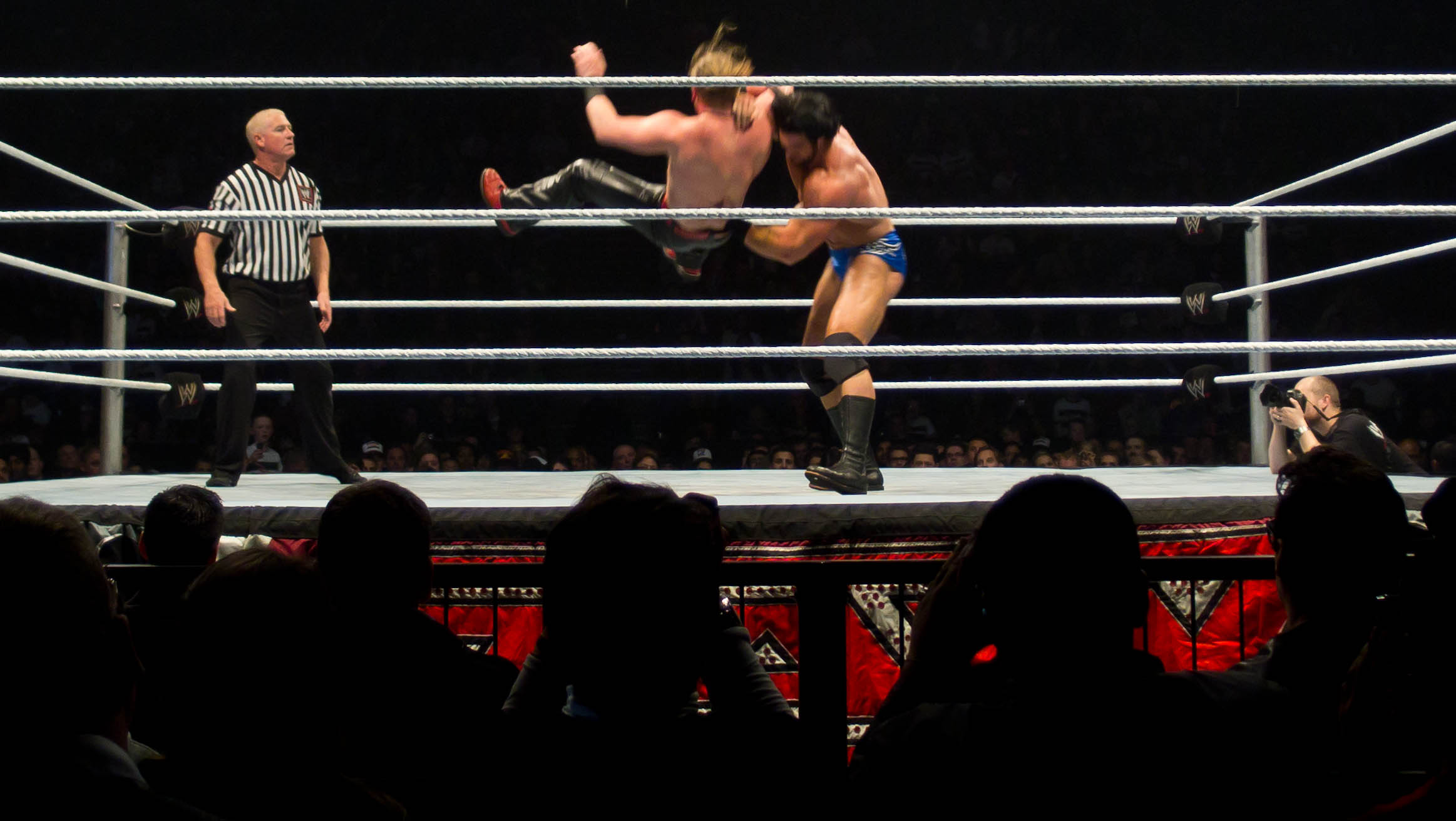 WWE Raw World Tour - London November 2011